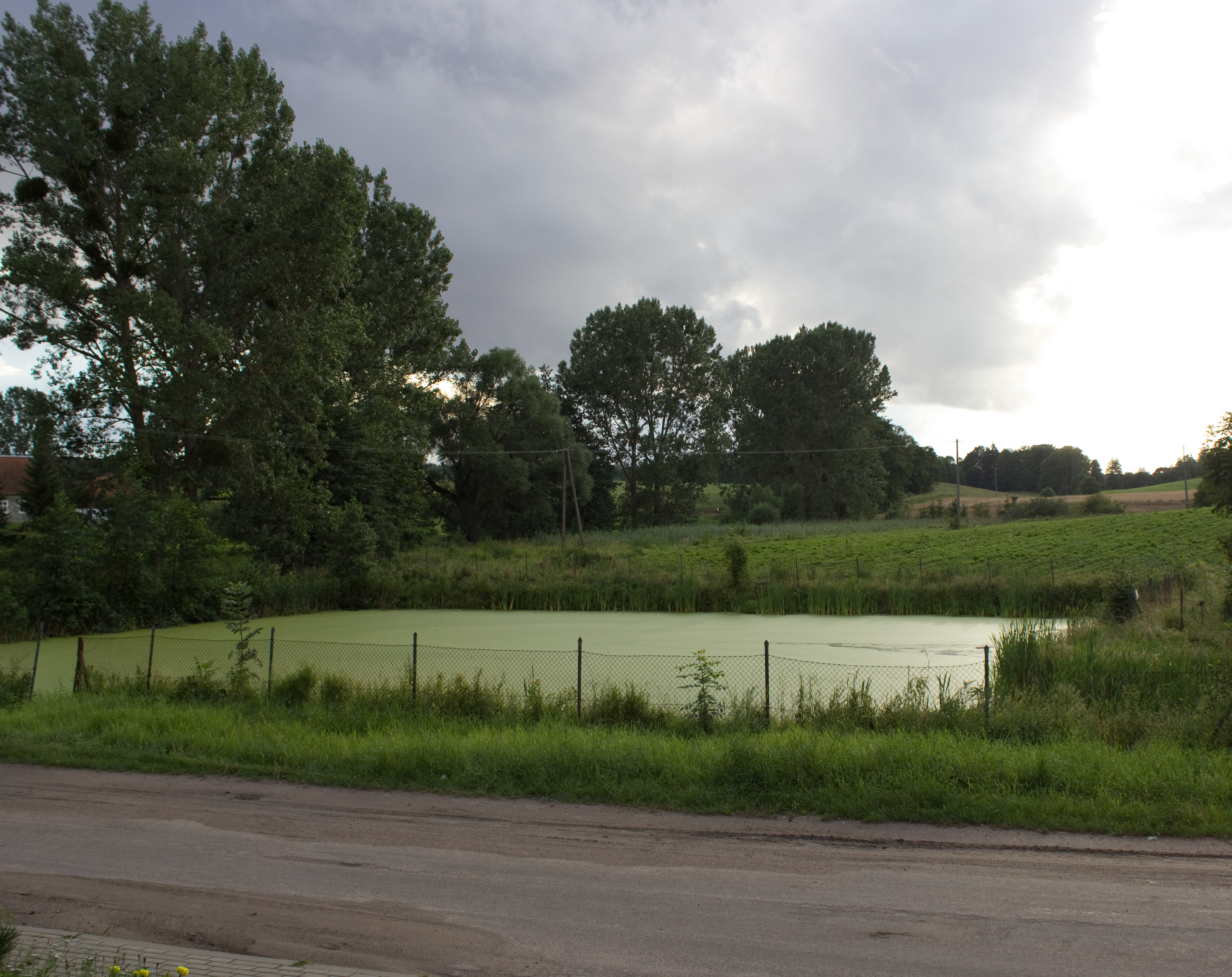 Kraskowo, gmina Korsze, powiat kętrzyński, Warmian-Masurian Voivodeship